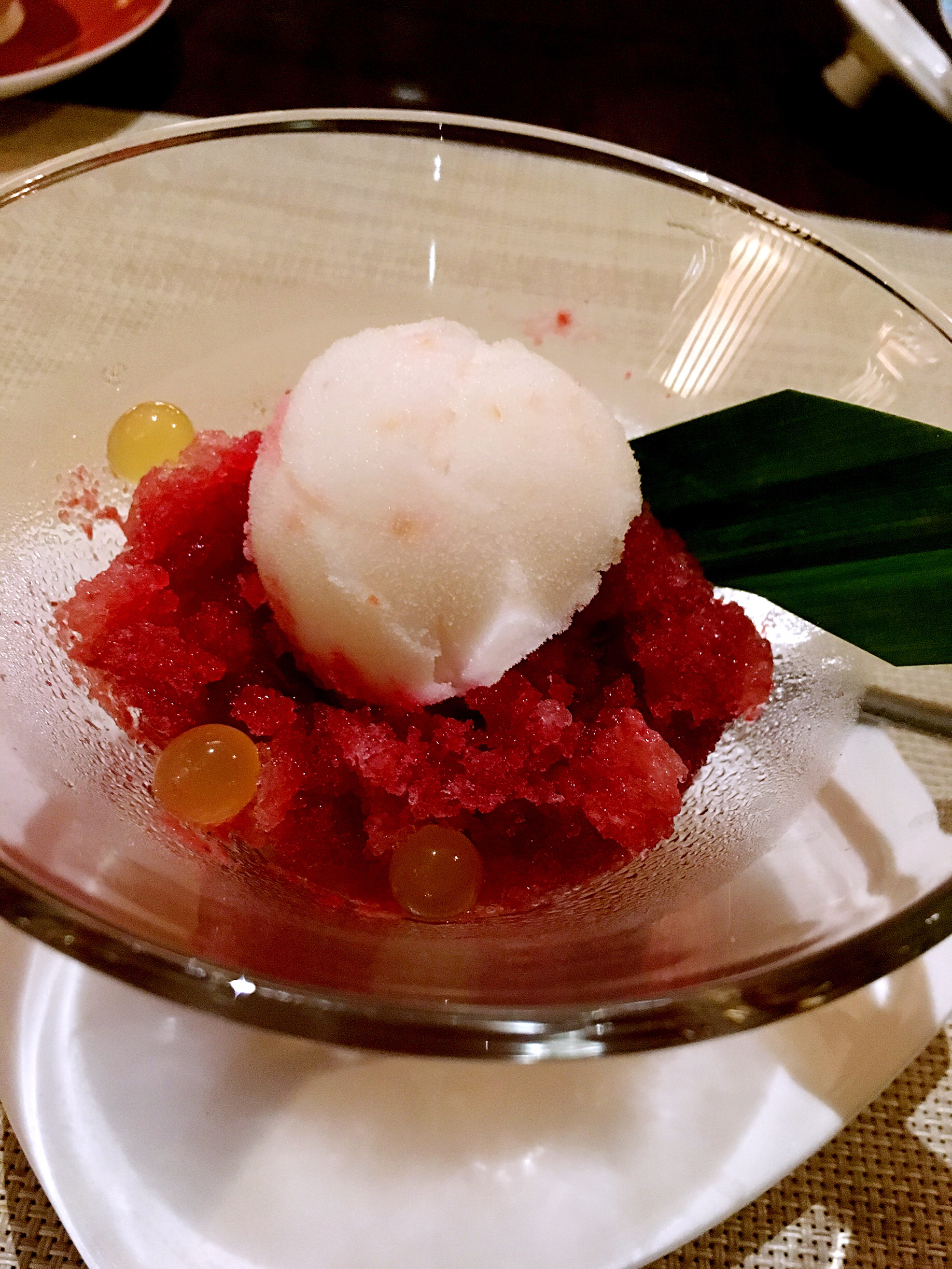 Cherries in Nu Er Hong and Kuei Hua Chen chinese wine cocktail jelly, served with lychee sorbet from Cherry Garden, Mandarin Oriental, Singapore.